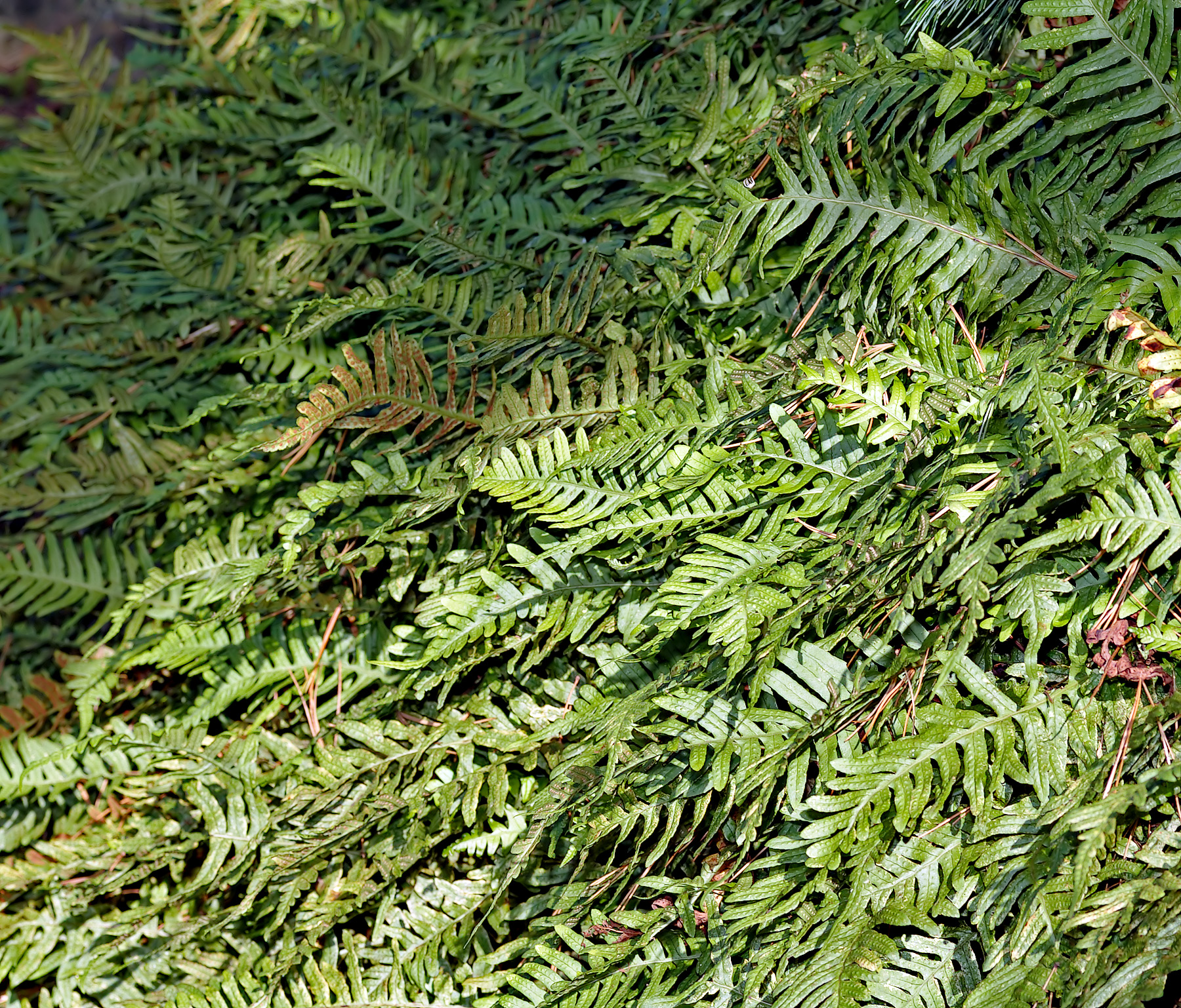 This image shows a Common Polypody plant (Polypodium vulgare).